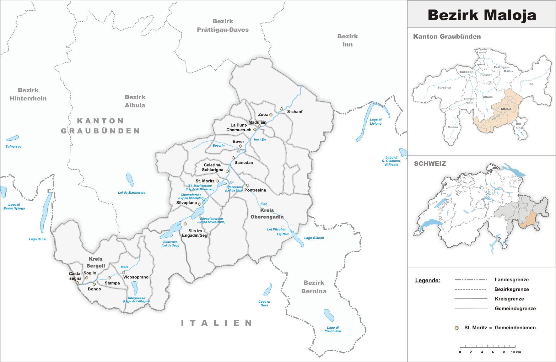 Municipalities in the district of Maloja